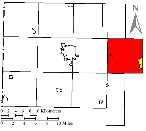 Made by the US Census and modified by myself